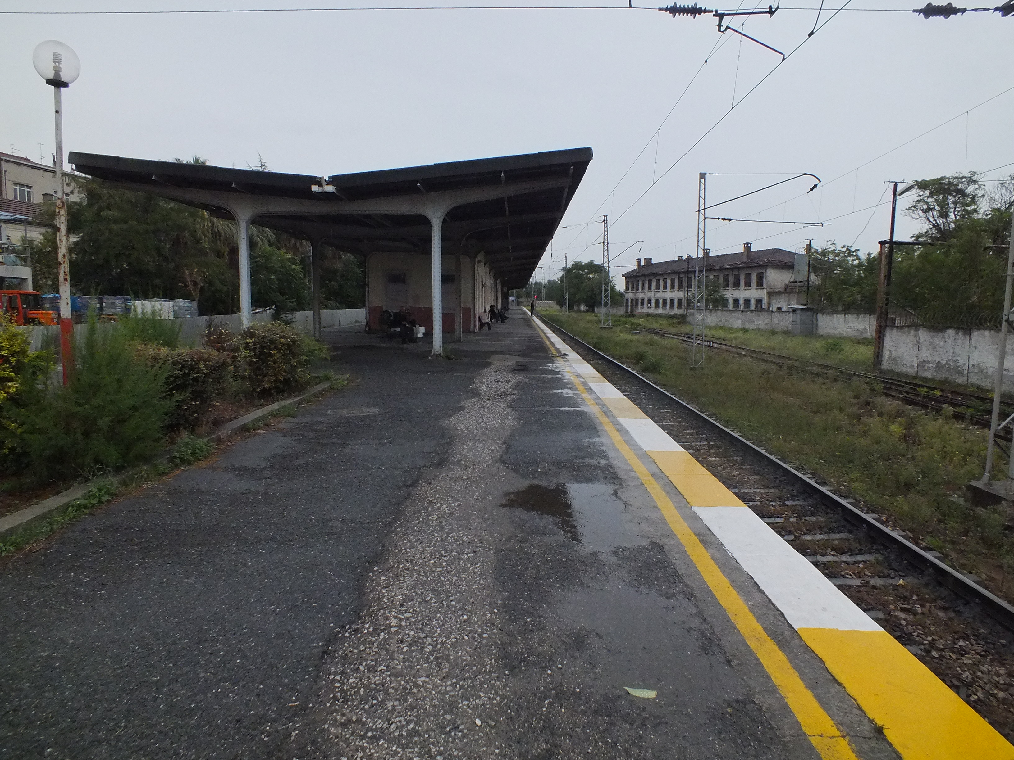 Yedikule train station looking east.